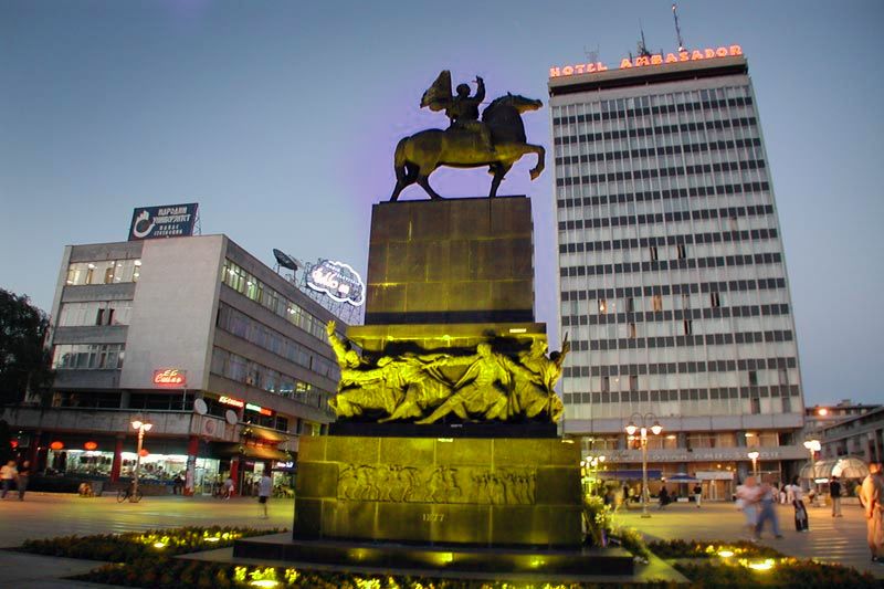 The Niš city centre. February 2008.